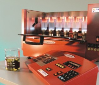 Peroxide Fluxer from Corporation Scientifique Claisse